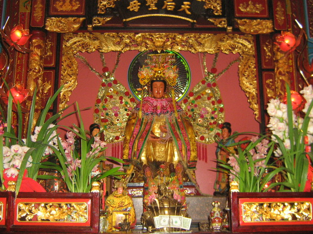 Primary Matsu statue at Chua Ba Thien Hau (Camau Association of America), Los Angeles